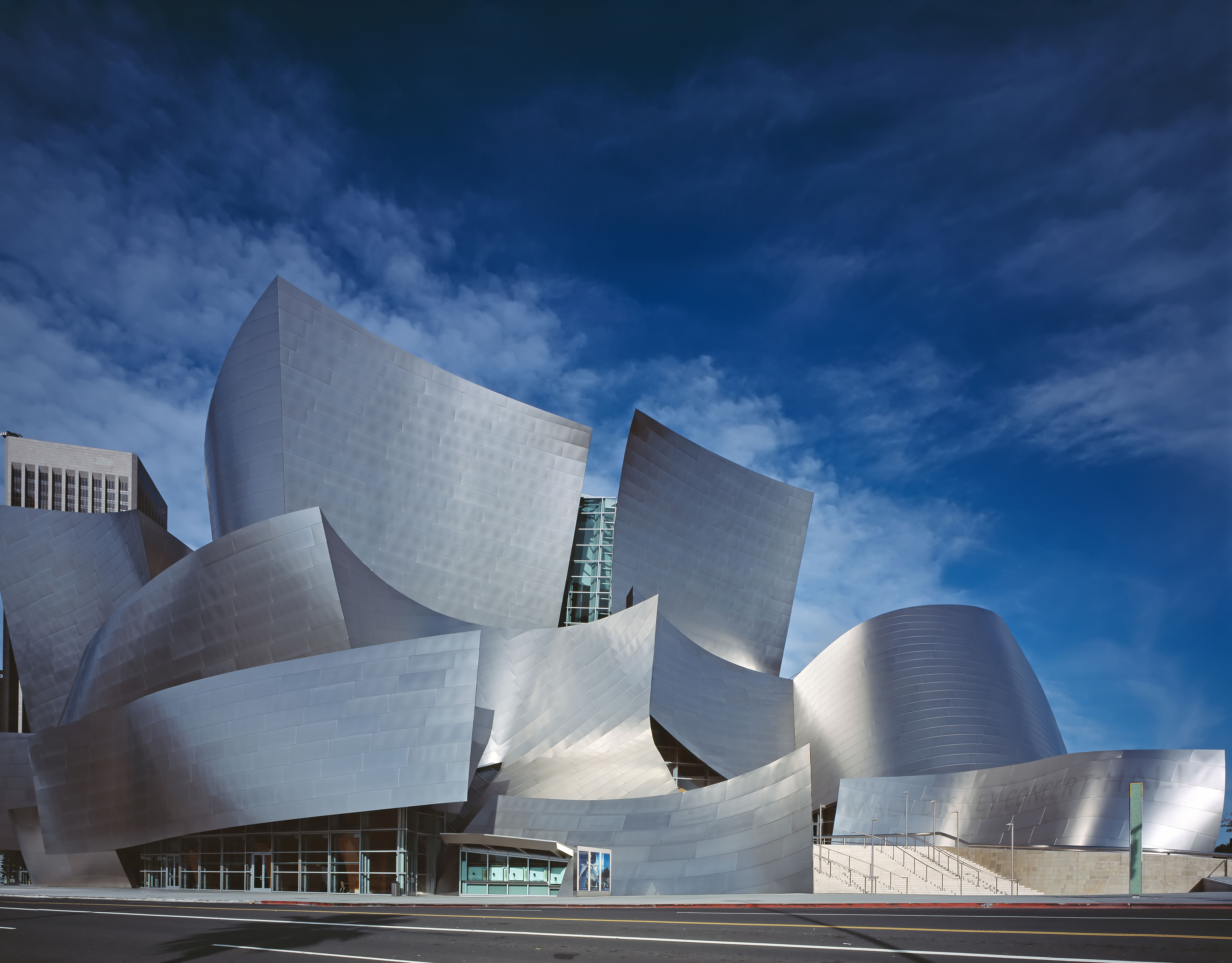 The Walt Disney Concert Hall, home to the Los Angeles Philharmonic, features an acoustically superior auditorium paneled in hardwood. The Disney family contributed more than $100 million to the project.